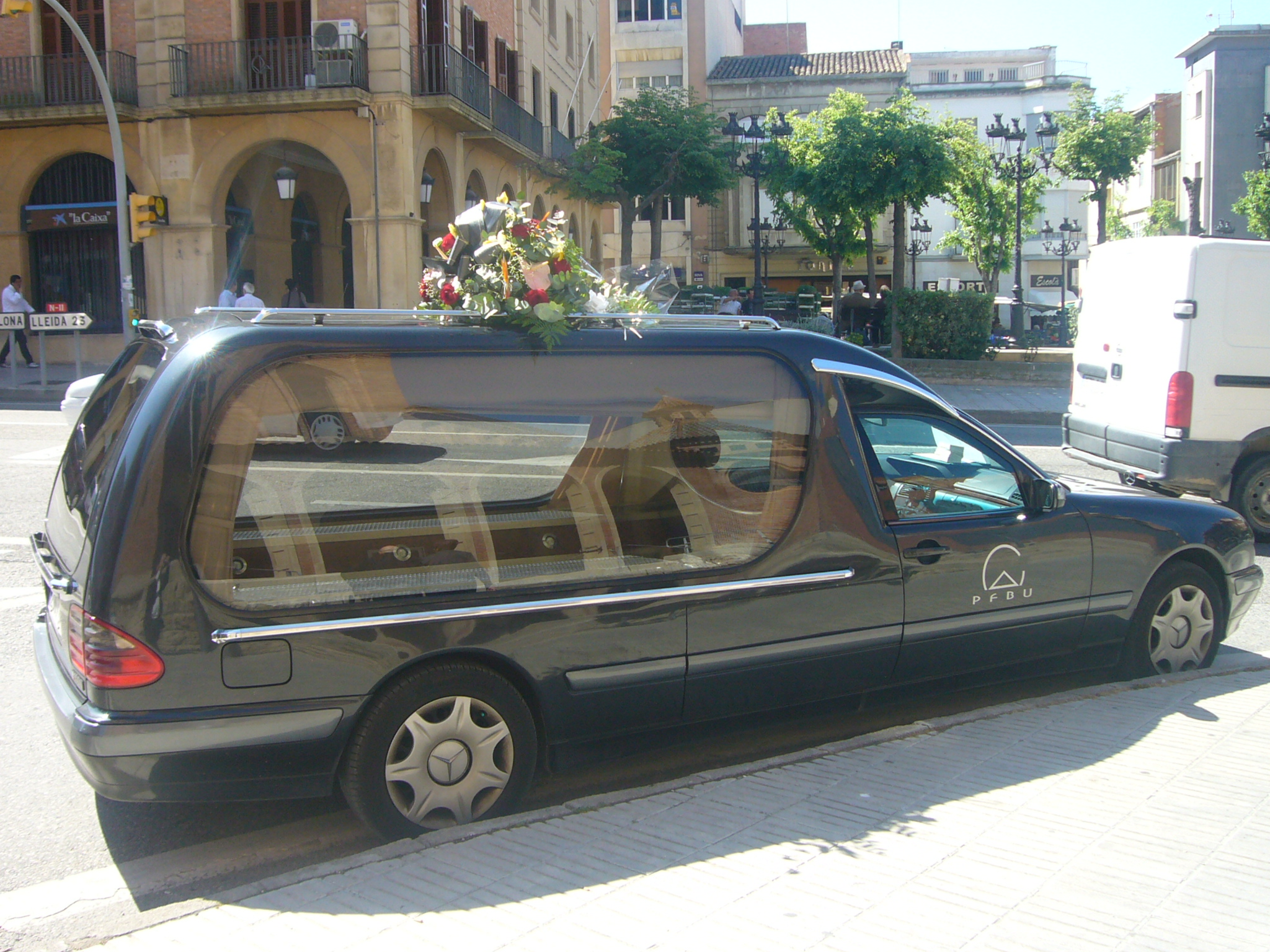 Mercedes-Benz hearse in Mollerussa